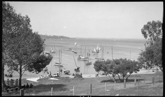 Picnickers at Point Walter, by the Swan River, Perth, Western Australia.